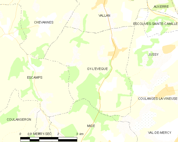 Map of French municipality Gy-l'Évêque